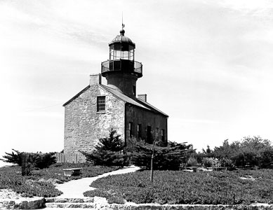 Public Domain statement here; The original Point Loma Lighthouse was built on top of Point Loma at the mouth of San Diego Bay in San Diego, California. It is situated in the Cabrillo National Monument.